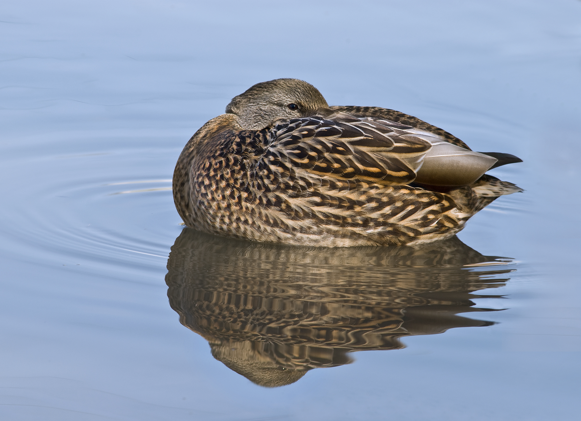 Female mallard duck resting